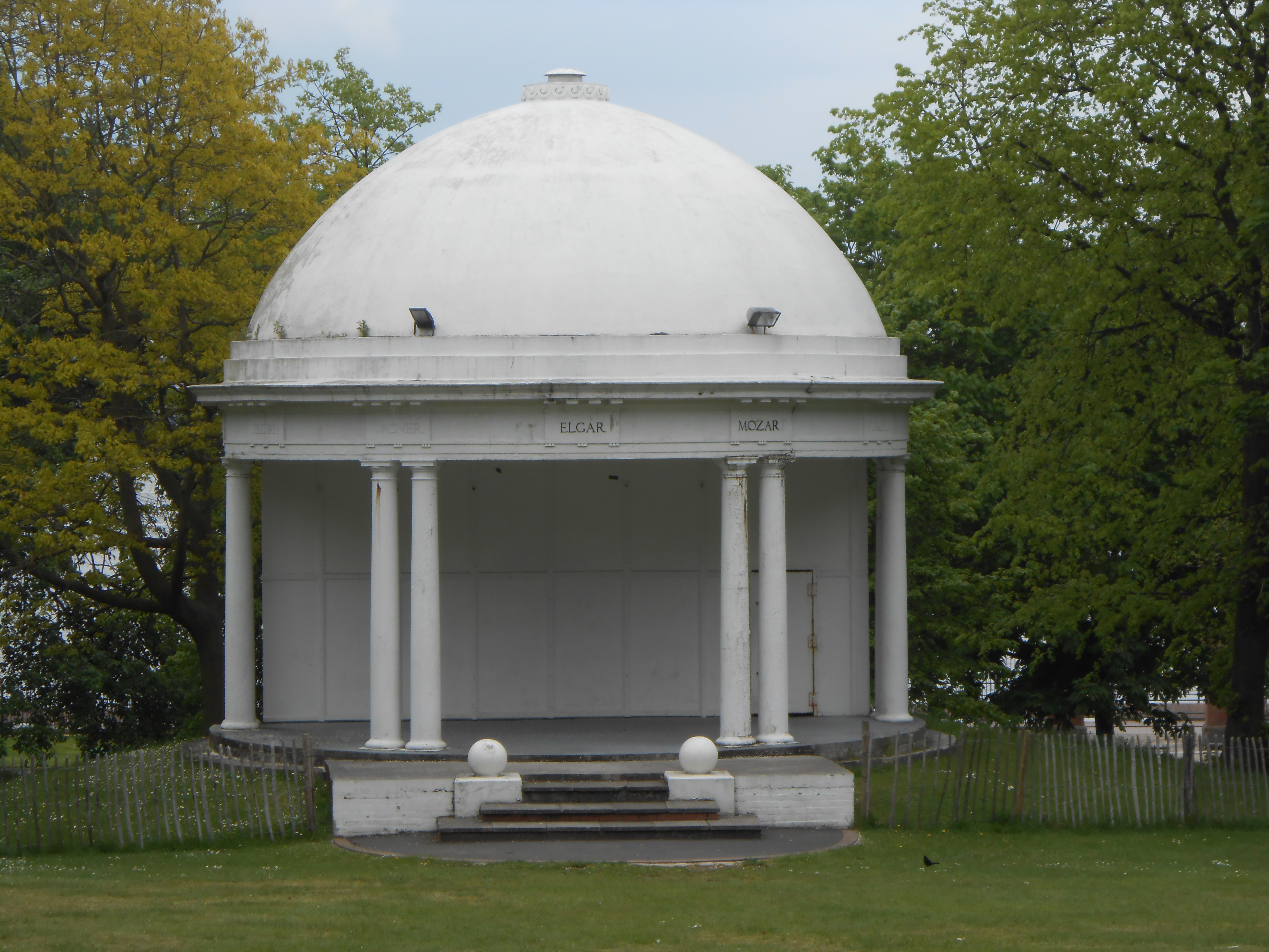 Photo taken at Vale Park, Wallasey, Wirral, England.